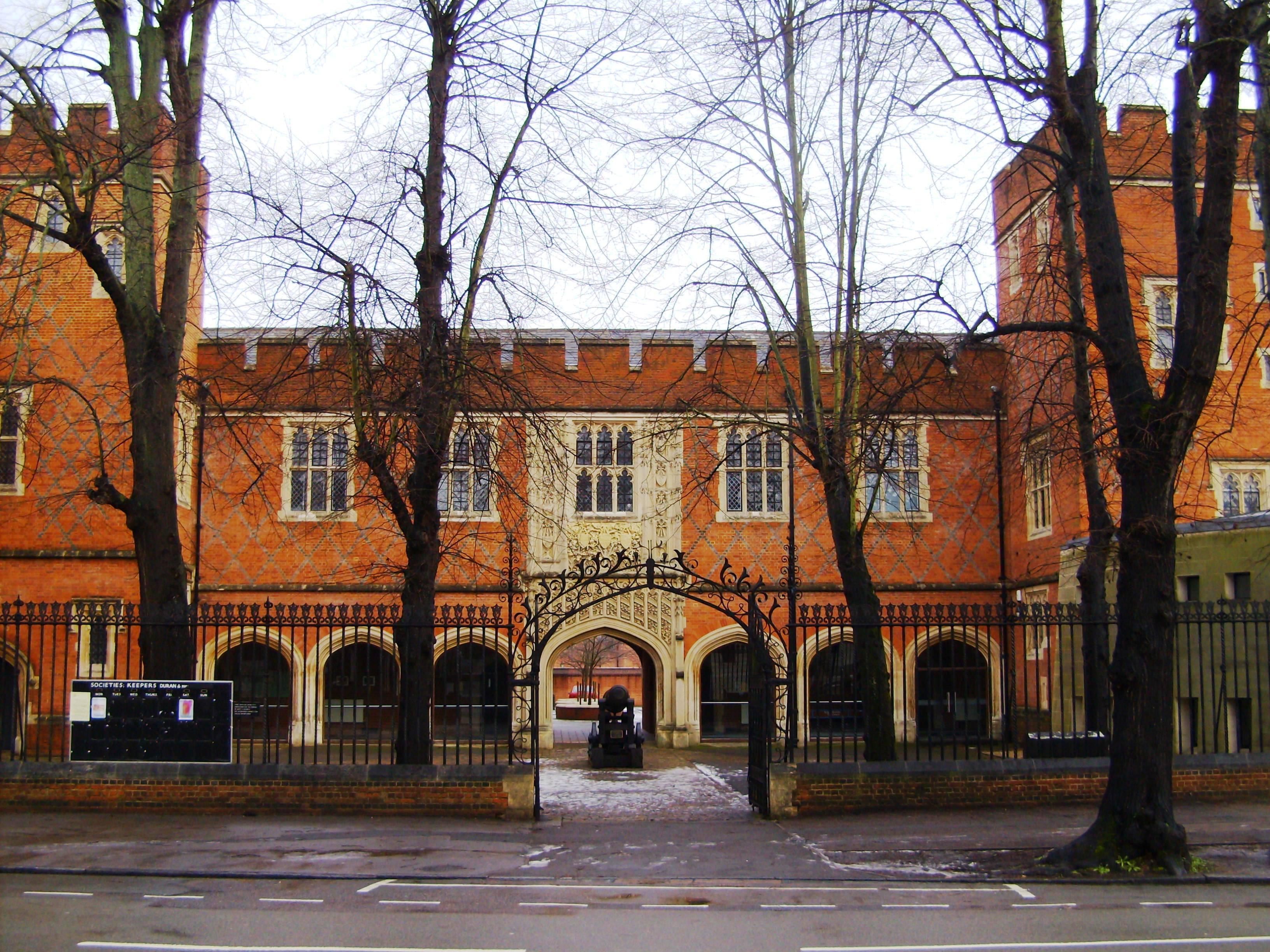 Eton College: the cannon.